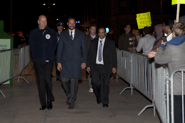 Norwegian crown prince Haakon Magnus participates in the Pakistani national day celebration in Oslo